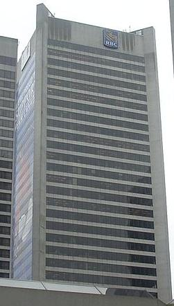 Royal Centre Vancouver photographed in Vancouver, British Coumbia, Canada at the 2010 Winter Olympics.